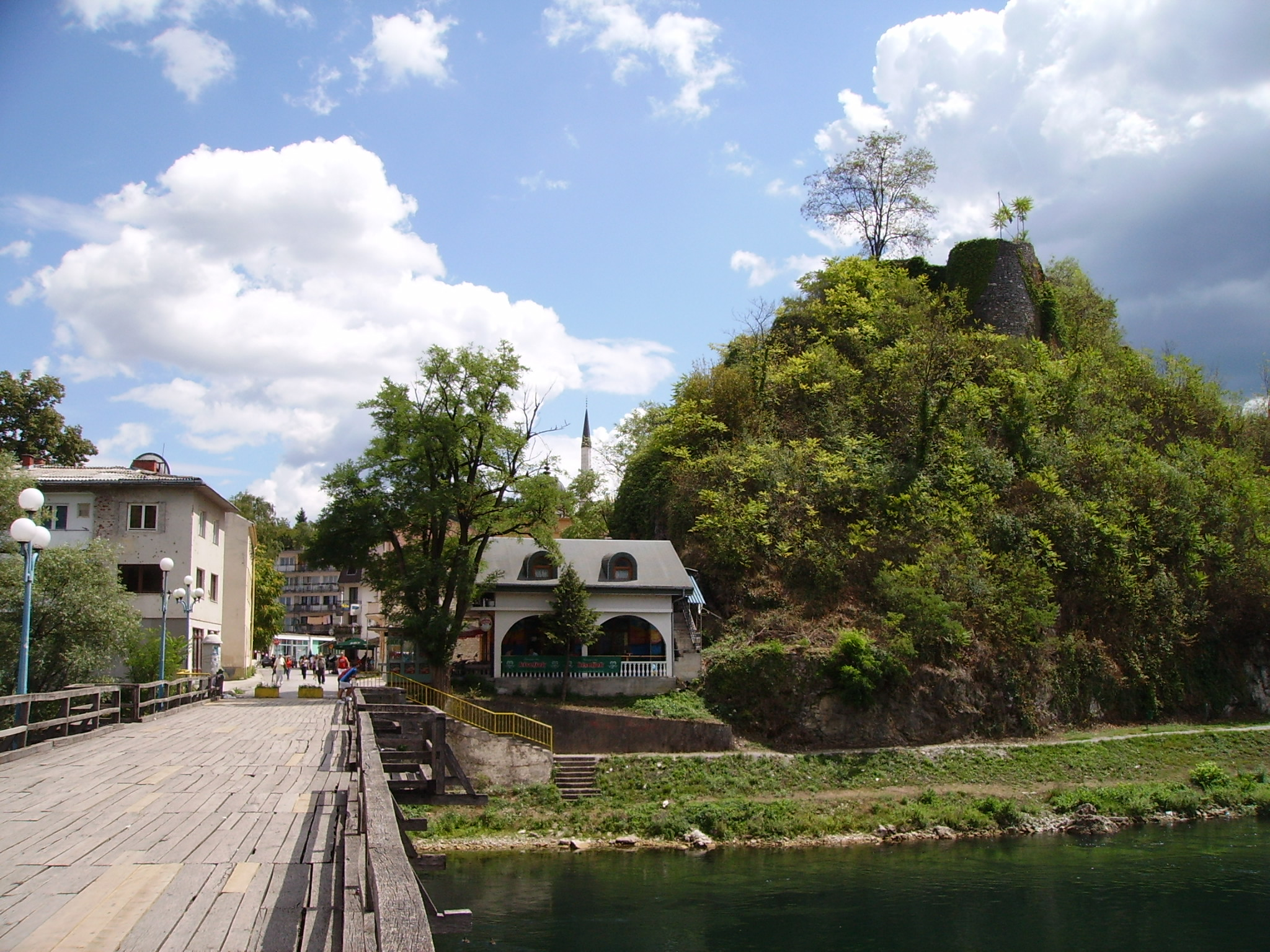 View over River Una on the inner town of Bosanska Krupa, Western Bosnia.